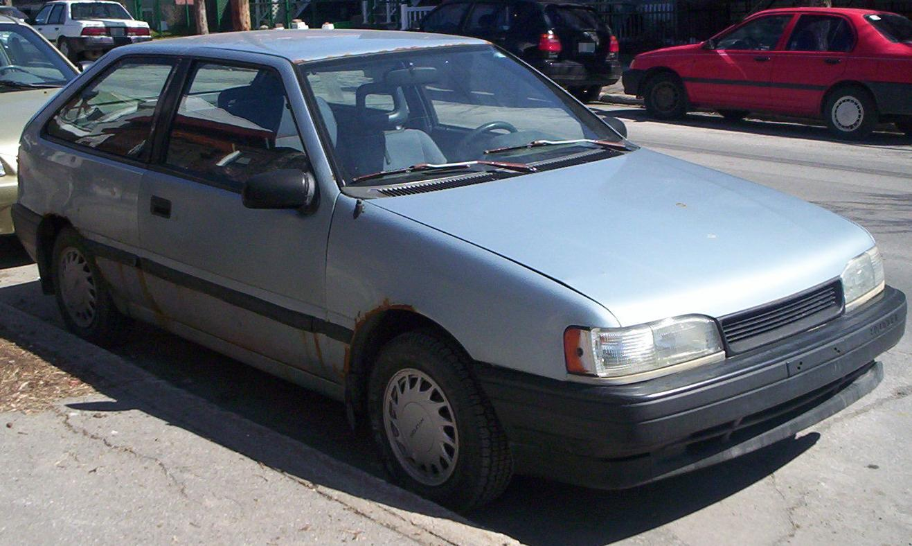 1990-1992 Hyundai Excel photographed in Montreal, Quebec, Canada.